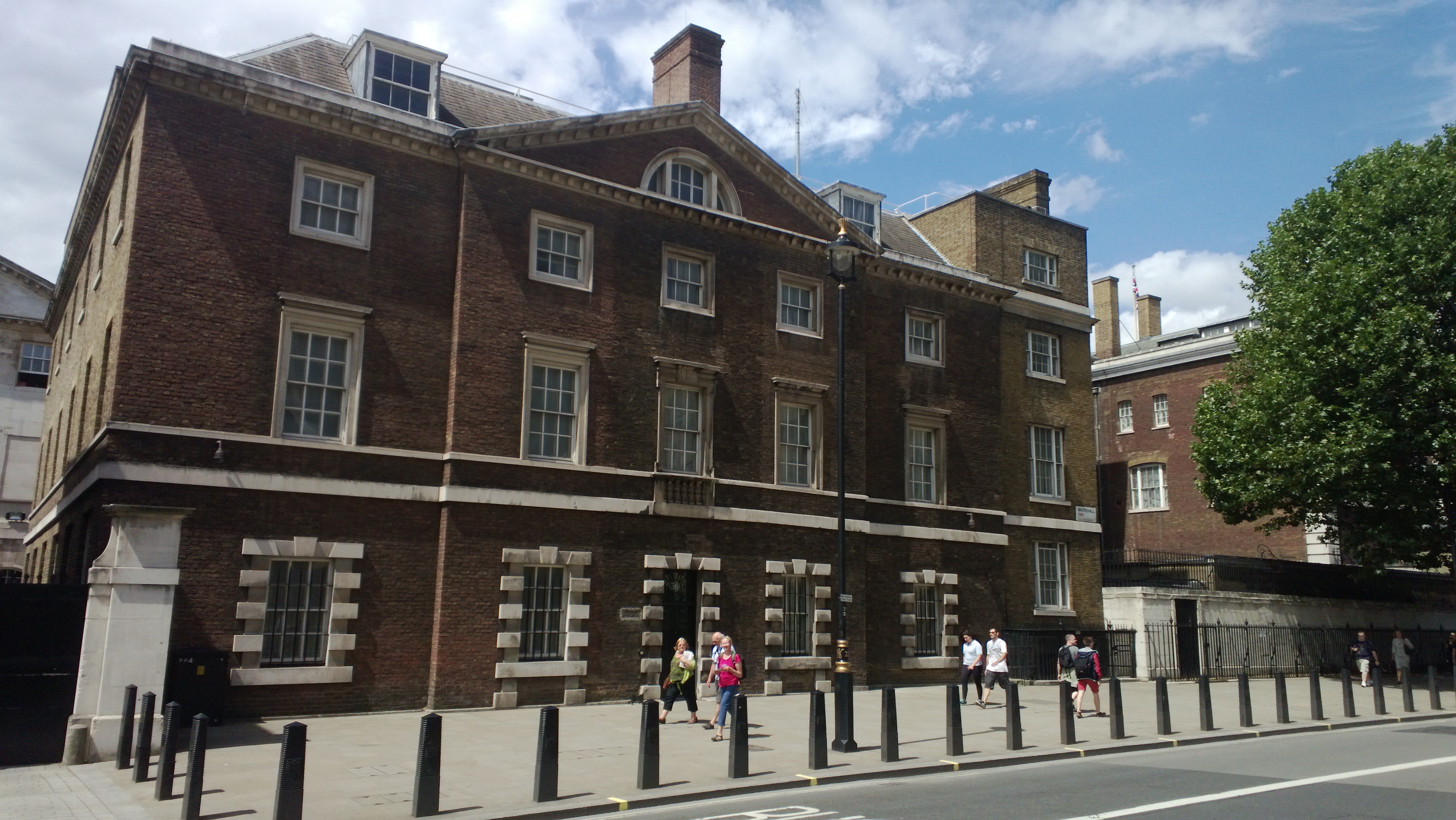 More recently served as office of the Parliamentary Counsel.